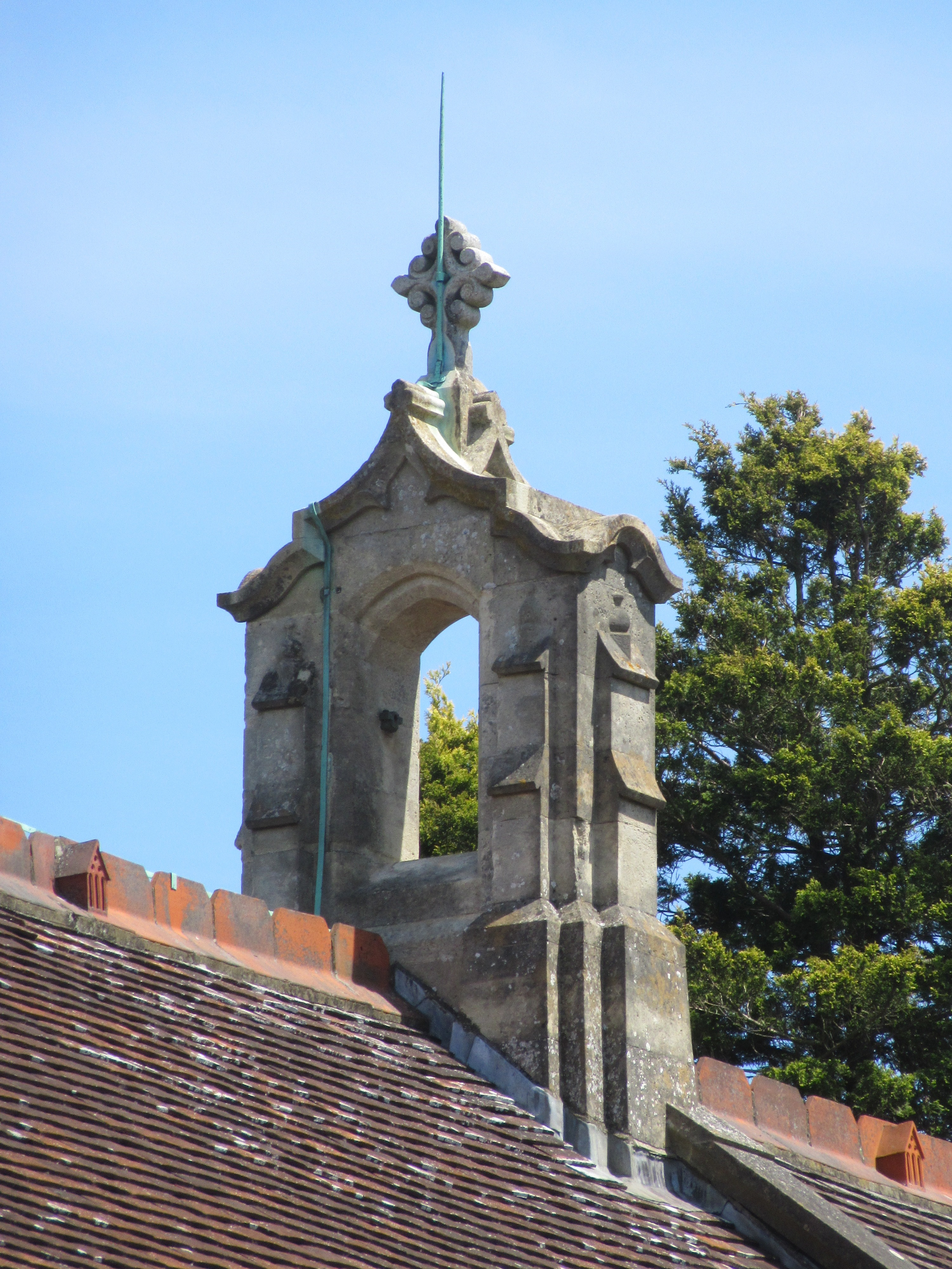 Bellcote on the roof of St Mark's Church, Main Road, Hadlow Down, Wealden District, East Sussex, England. The Anglican parish church of the village of Hadlow Down.